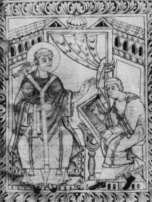 Pope Gregory I dictating the Gregorian music anonymous artist, Antiphonar of Hartker of Sankt-Gallen (Cod. Sang. 390, p. 13) circa 1000